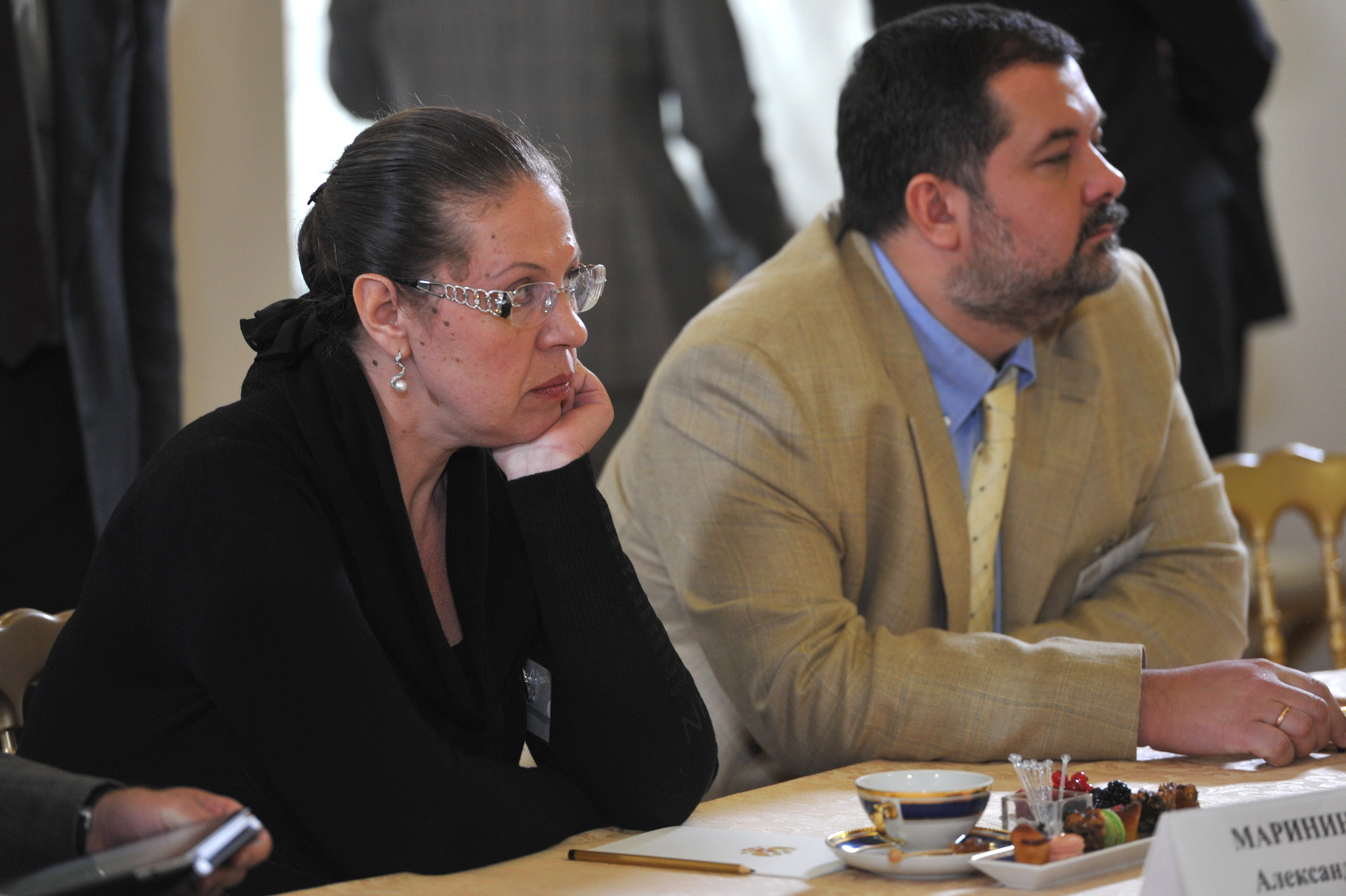 Alexandra Marinina and Sergei Lukyanenko, authors